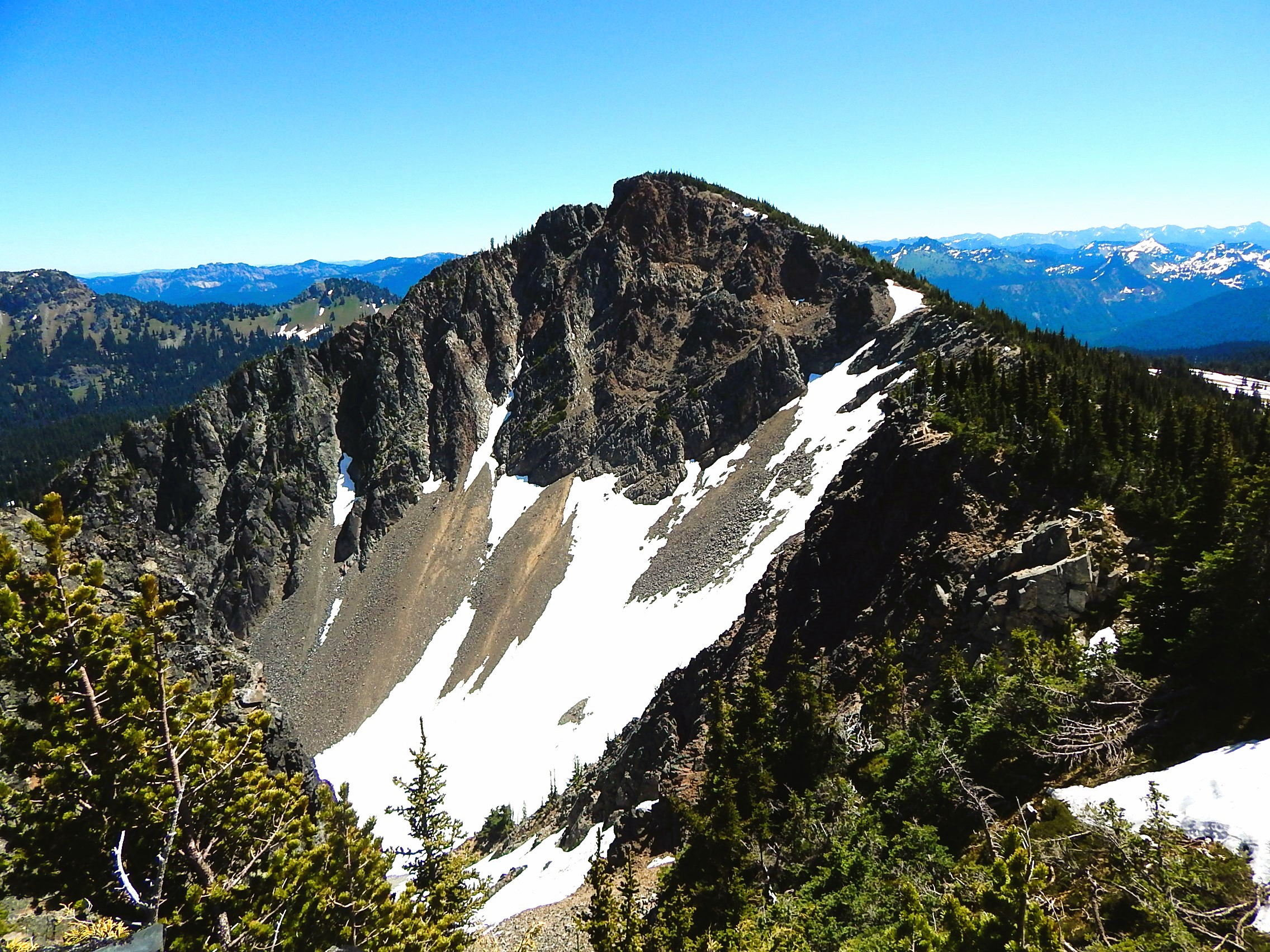 The west aspect of Antler Peak, camera pointed east. Mount Rainier National Park.